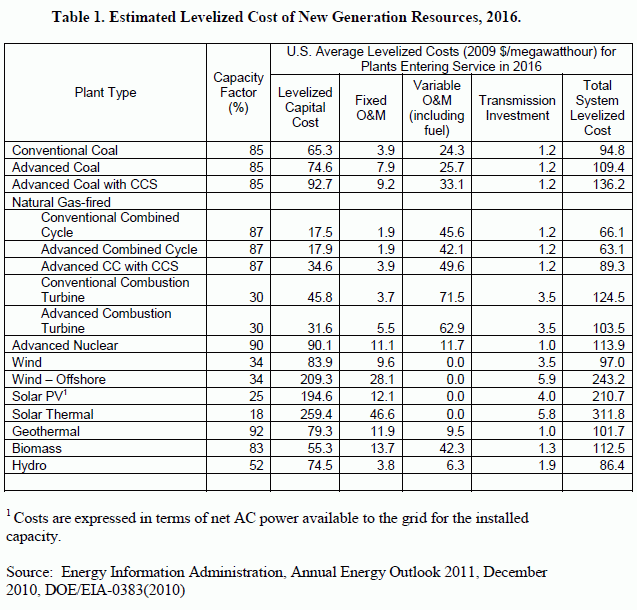 Estimated Levelized Cost of New Generation Resources, 2016 from Annual Energy Outlook 2011 report.